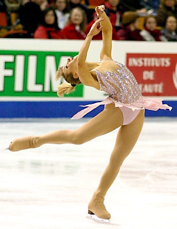 Angela Nikodinov performs a layback spin at the 2004 Four Continents Championships in Hamilton, Ontario, Canada.